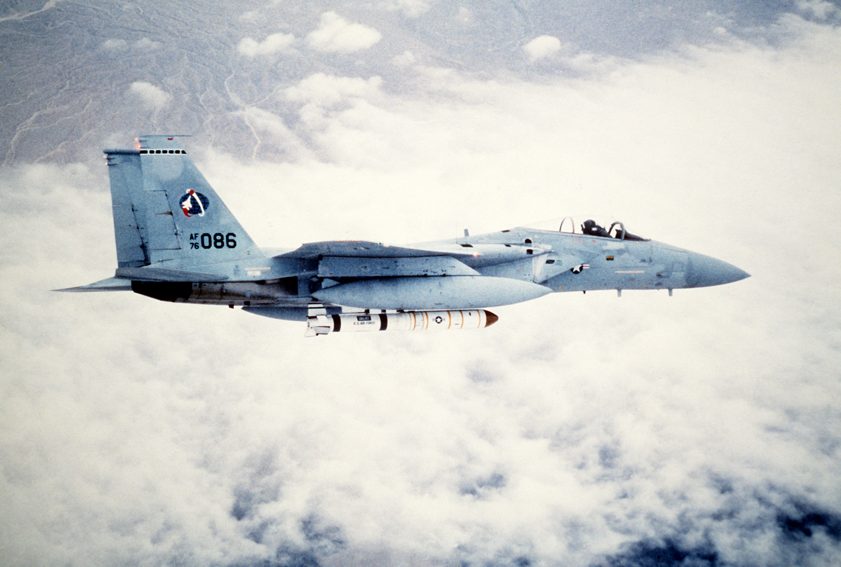 An air-to-air right side view of an F-15 Eagle aircraft carrying an ASM-135 anti-satellite (ASAT) missile on it's centerline station.